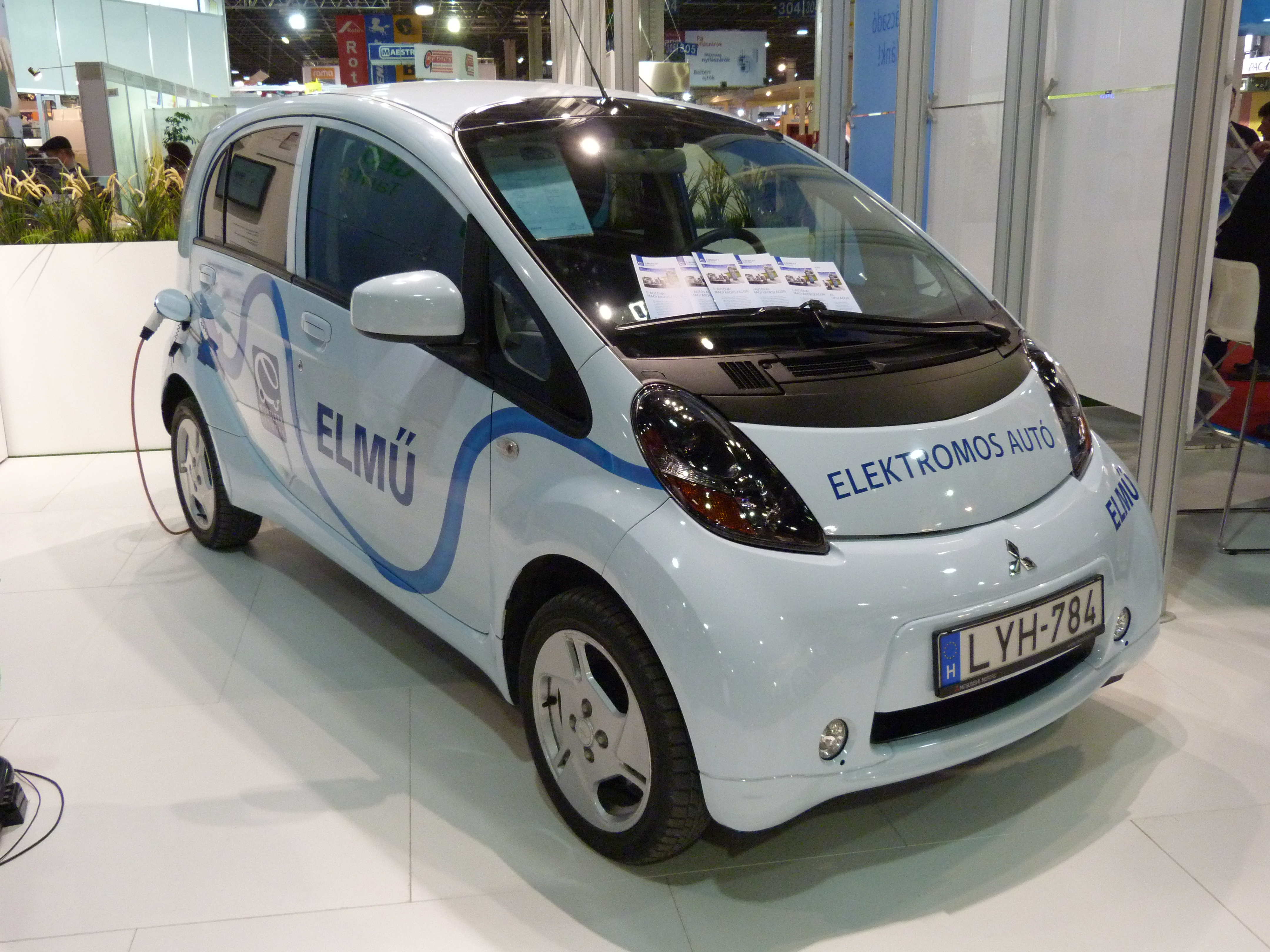 Live on the 17th of April, 2015. Construma Exibition. Electric car. ©© Derzsi Elekes Andor, Budapest, 2015, Published in the Metapolisz DVD line. You are authorised to use this photo under Creative Commons – even for commercial, for profit purposes. The photo must be attributed to Derzsi Elekes Andor. All of the photos and vids in the Metapolisz DVD line are under Creative Commons and can be used even for commercial – for profit – purposes. Recommended Citation Derzsi Elekes Andor: Metapolisz DVD line